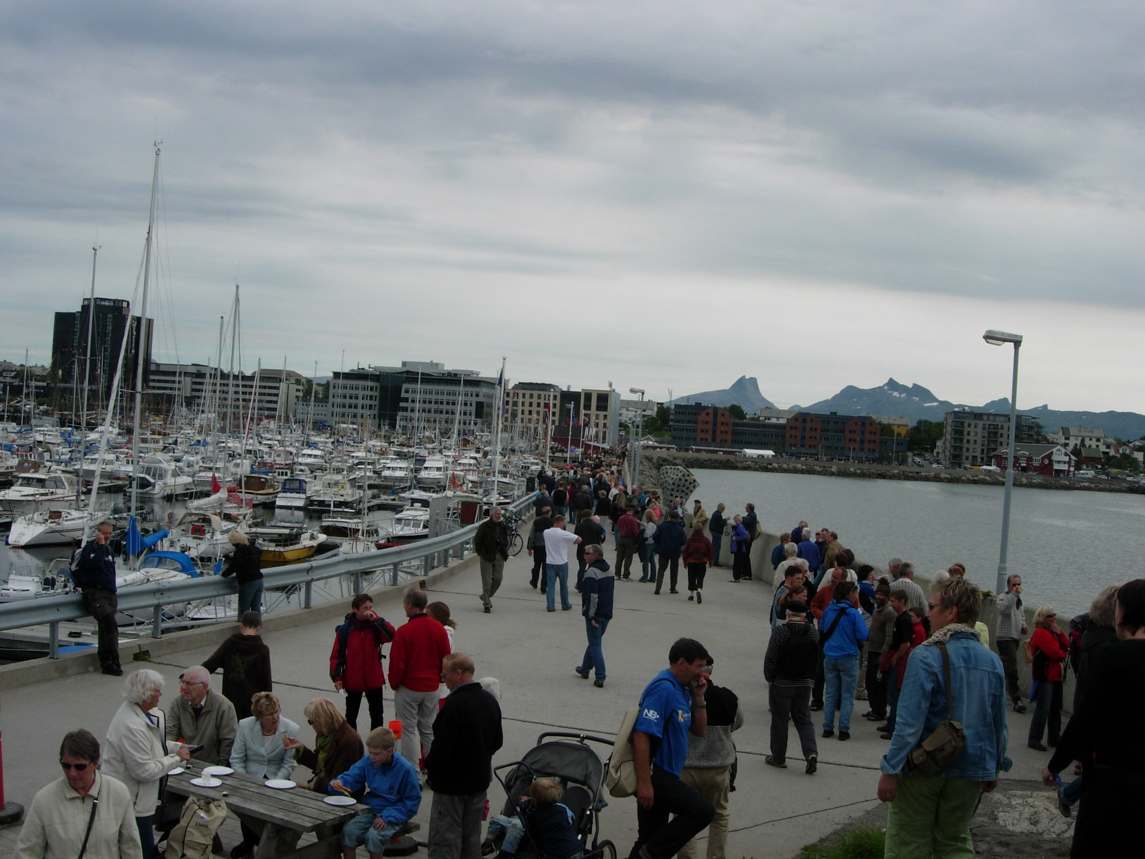 Bodø harbour